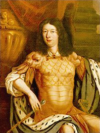 Portrait of Patrick Lyon, 3rd Earl of Strathmore and Kinghorne (1643-1695). (Detail of a family portrait of the Earl with his sons, John, Charles and Patrick)